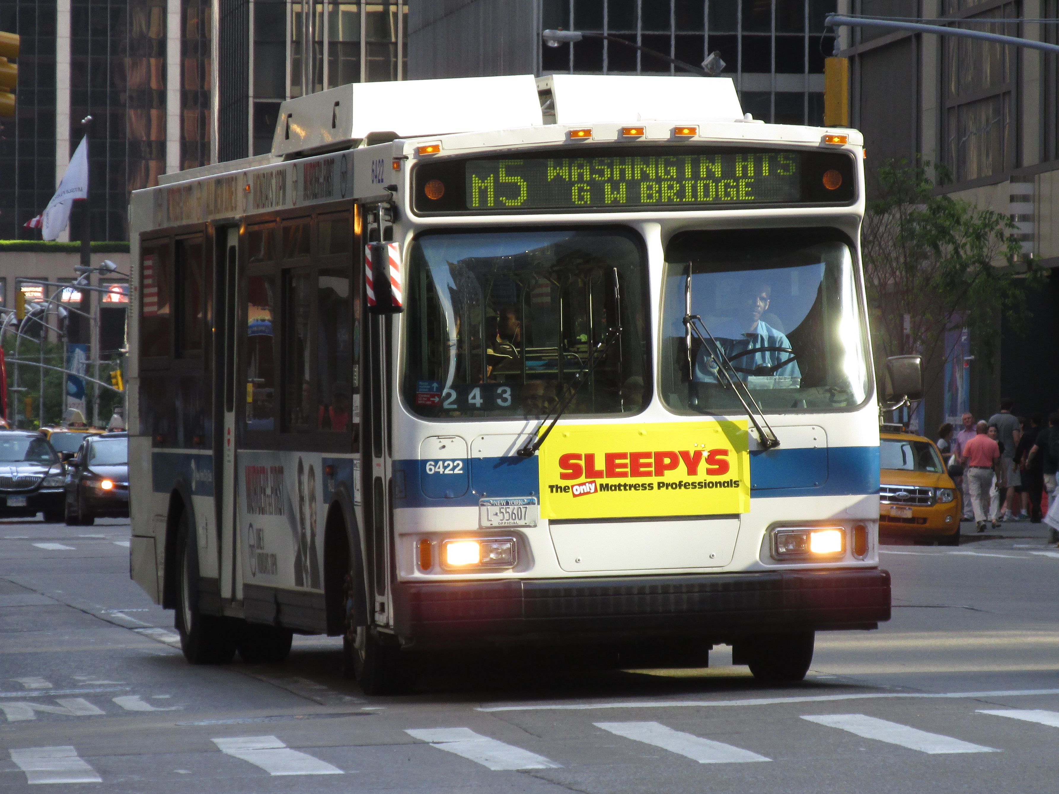 M5 Orion VII